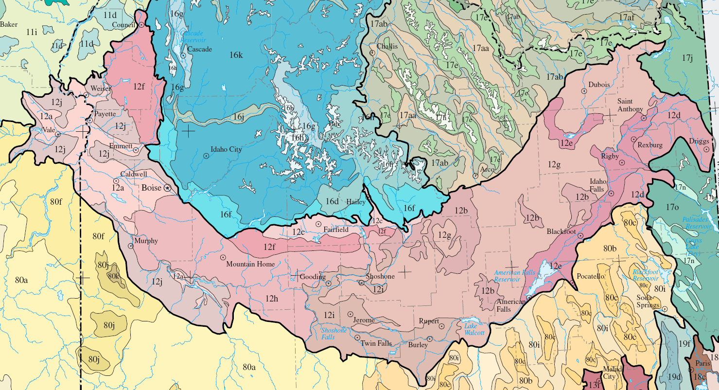 Level IV ecoregions in the Snake River Plain ecoregion, as defined by the EPA. This map is a draft and may now be slightly outdated. For more information about these ecoregions, see [1]